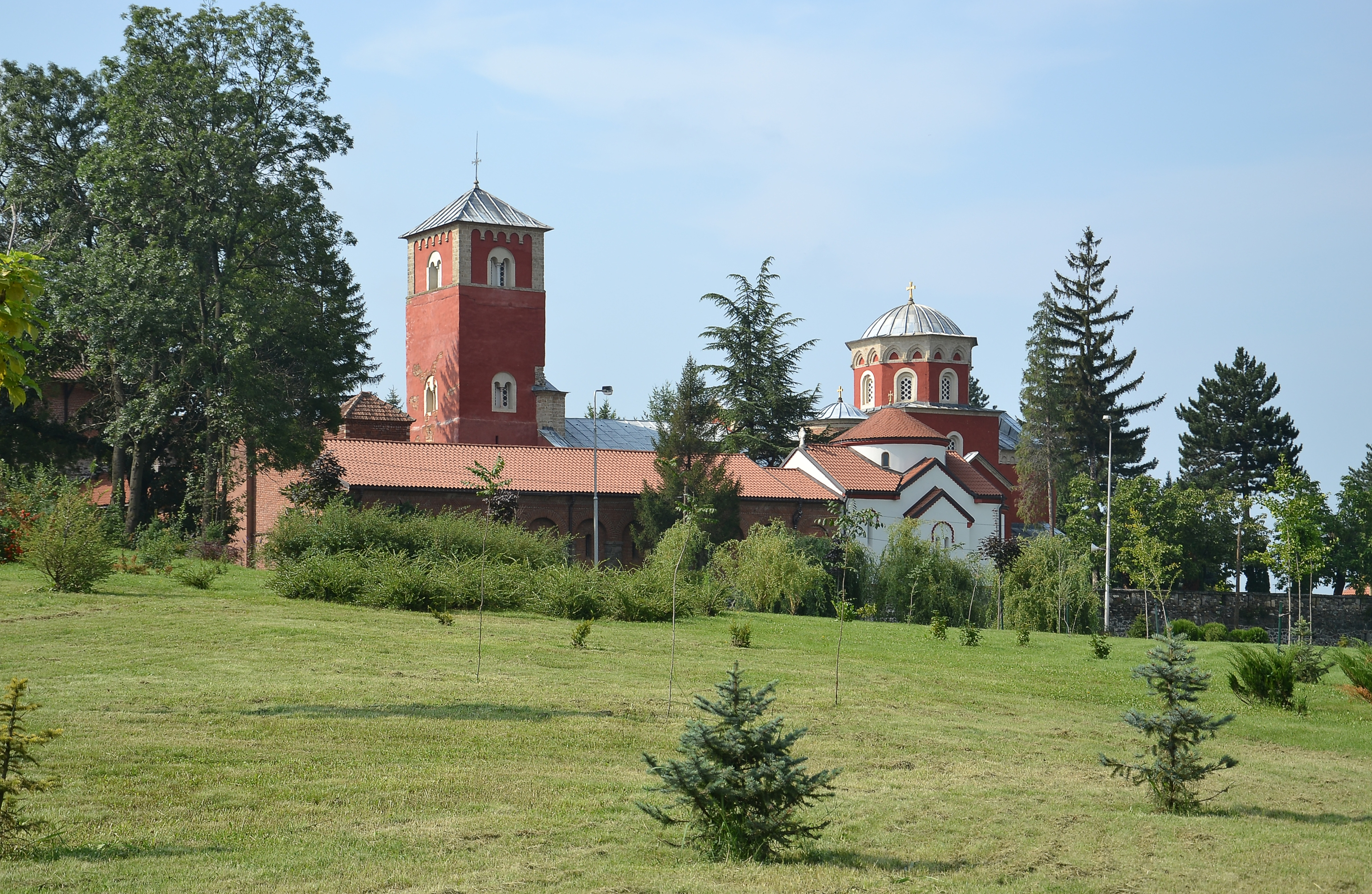 Žiča monastery, Serbia